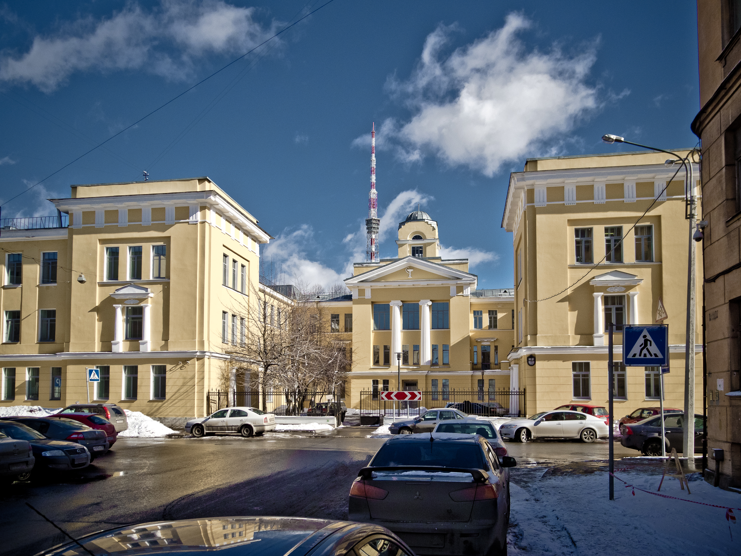 Children's psychiatric hospital in Saint Petersburg